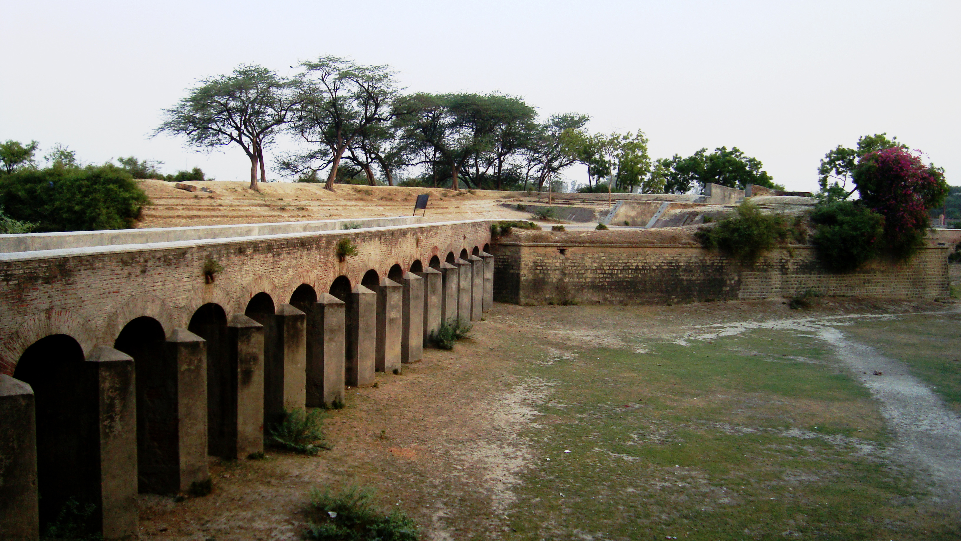 Fort of Aligarh and its boundary